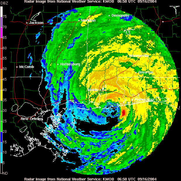 Hurricane Ivan: WSR-88D 0.5 reflectivity scan at landfall